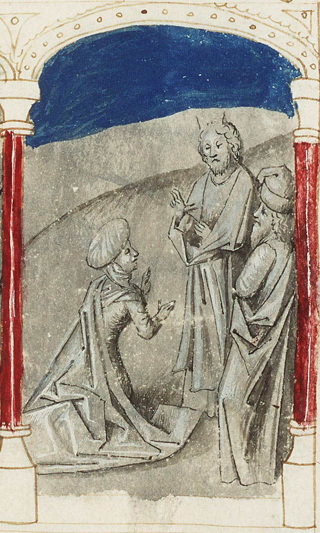 Moses Prays for Miriam To Be Healed, illumination circa 1450-1455 by Hesdin of Amiens from a e:Biblia pauperum, at the Museum Meermanno Westreenianum, The Hague.